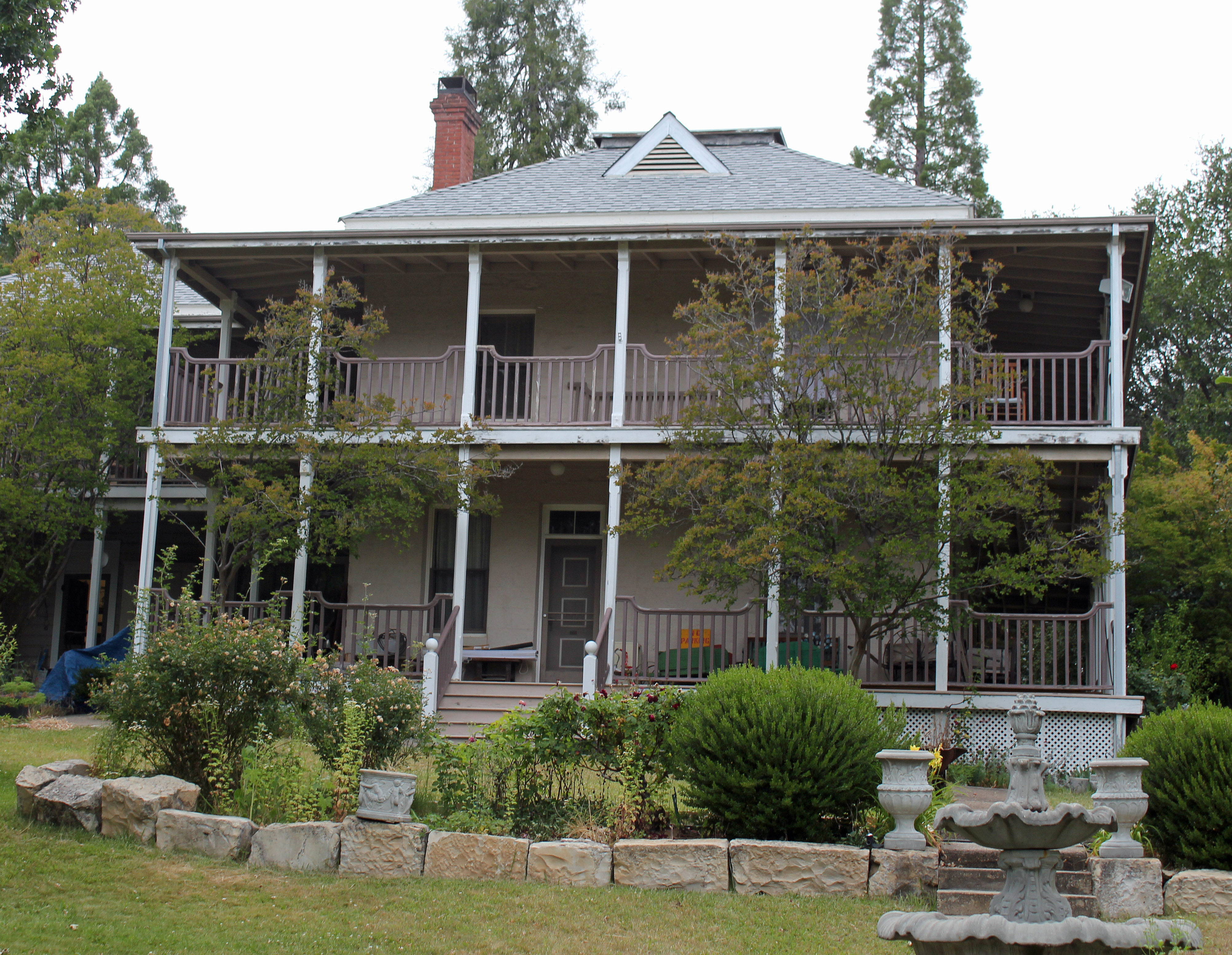 The Utica Mansion, located at 1103 Bush Street in Angels Camp, California. The property is listed on the National Register of Historic Places.